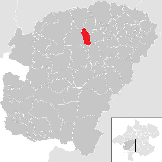 District Vöcklabruck